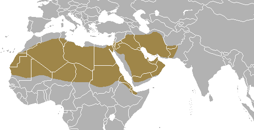 Ruppel's Fox range